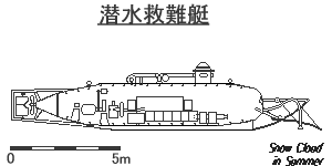 Drawing of Japanese Nishimura's submersible. It is submarine resucue type(No.3 and No.4) which made in Kure Naval Arsenal.